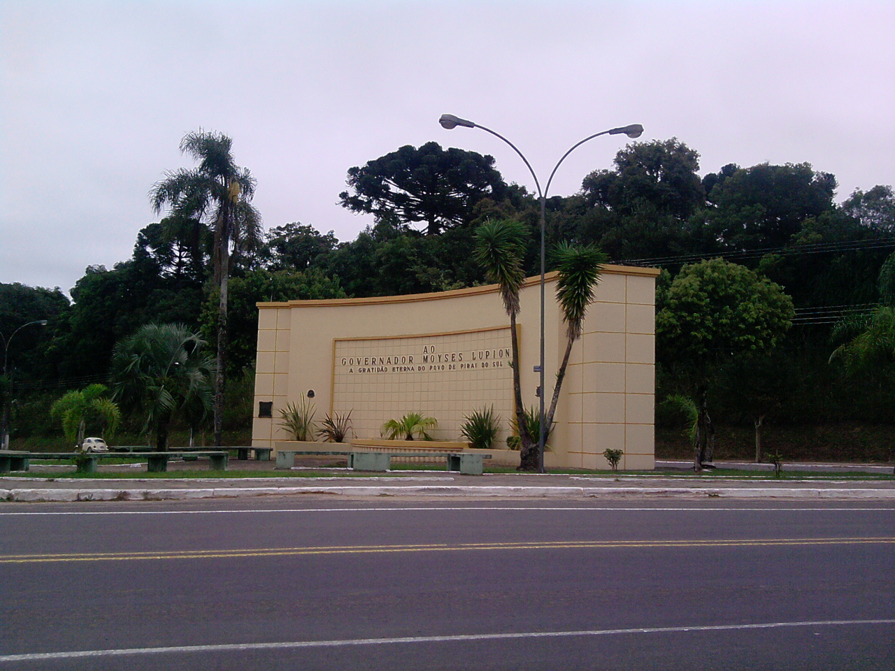 Monument dedicated to the governor Moysés Lupion in Piraí do Sul